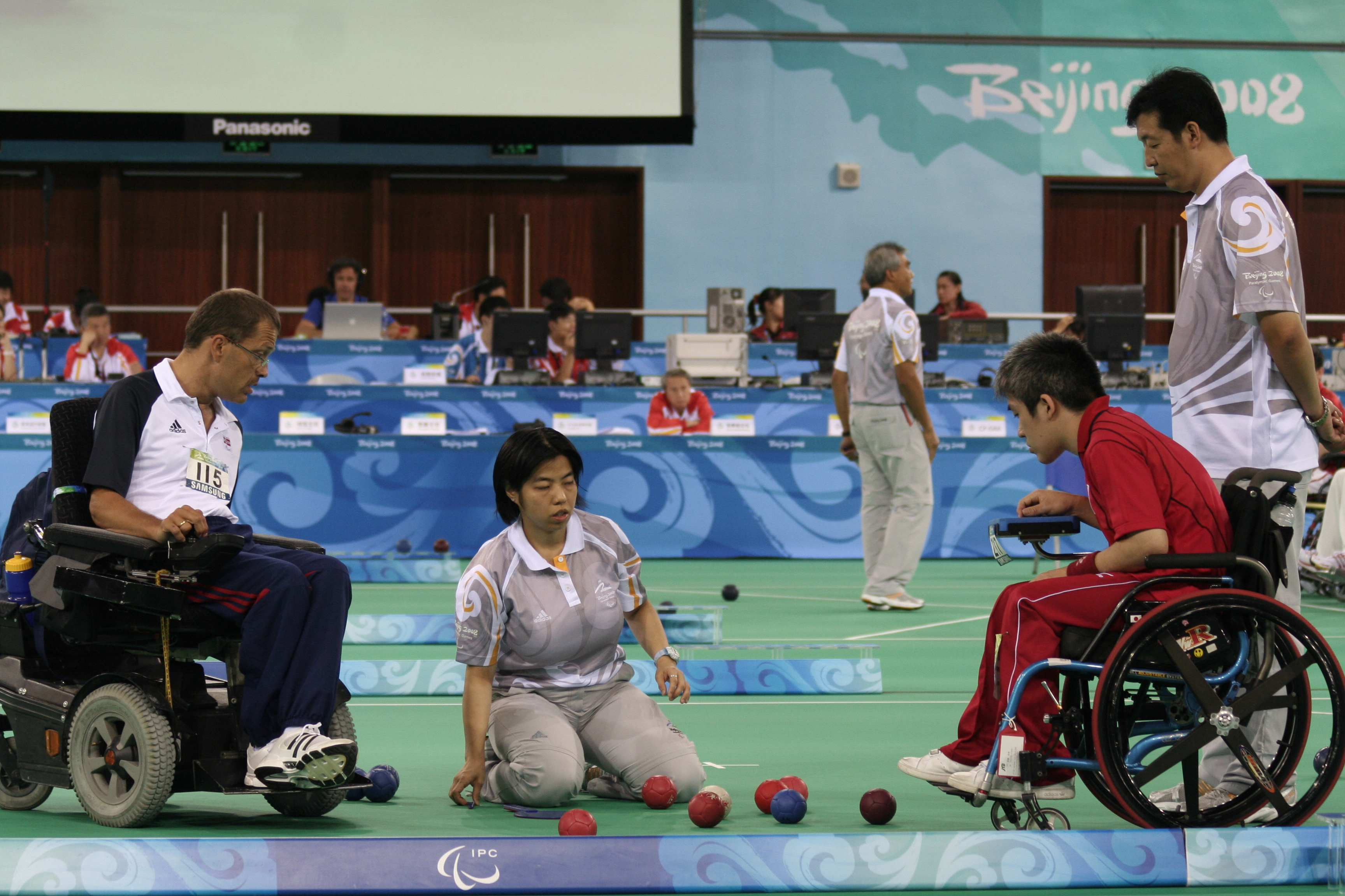 Individual boccia game masters - Beijing Paralympics 2008, Norway's Roger Aandalen (blue/white) vs Japan's Takayuki Hirose (red).